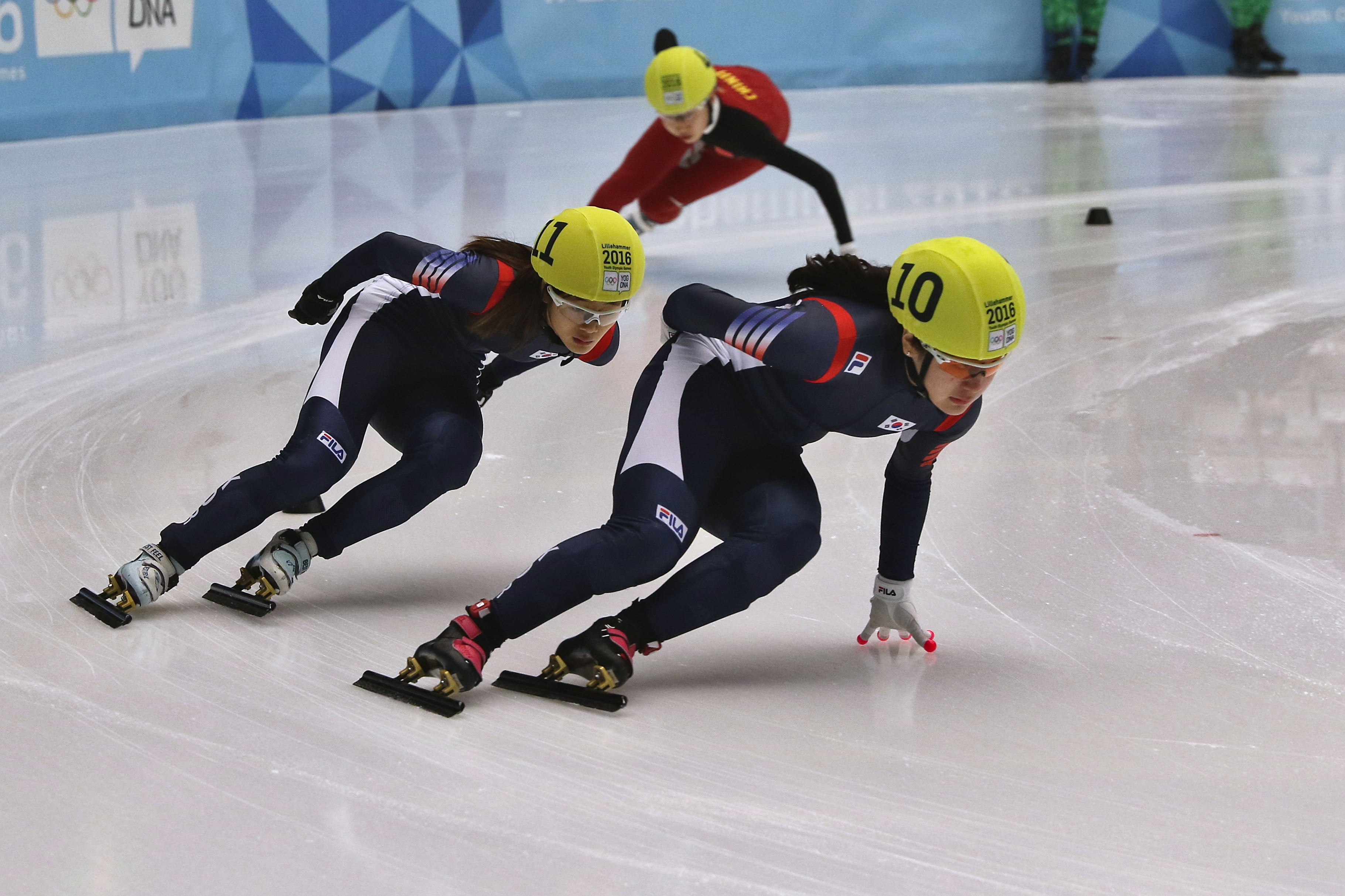 Lillehammer 2016 - Short track 1000m - Women Semifinals - Jiyoo Kim, Suyoun Lee and Yize Zang